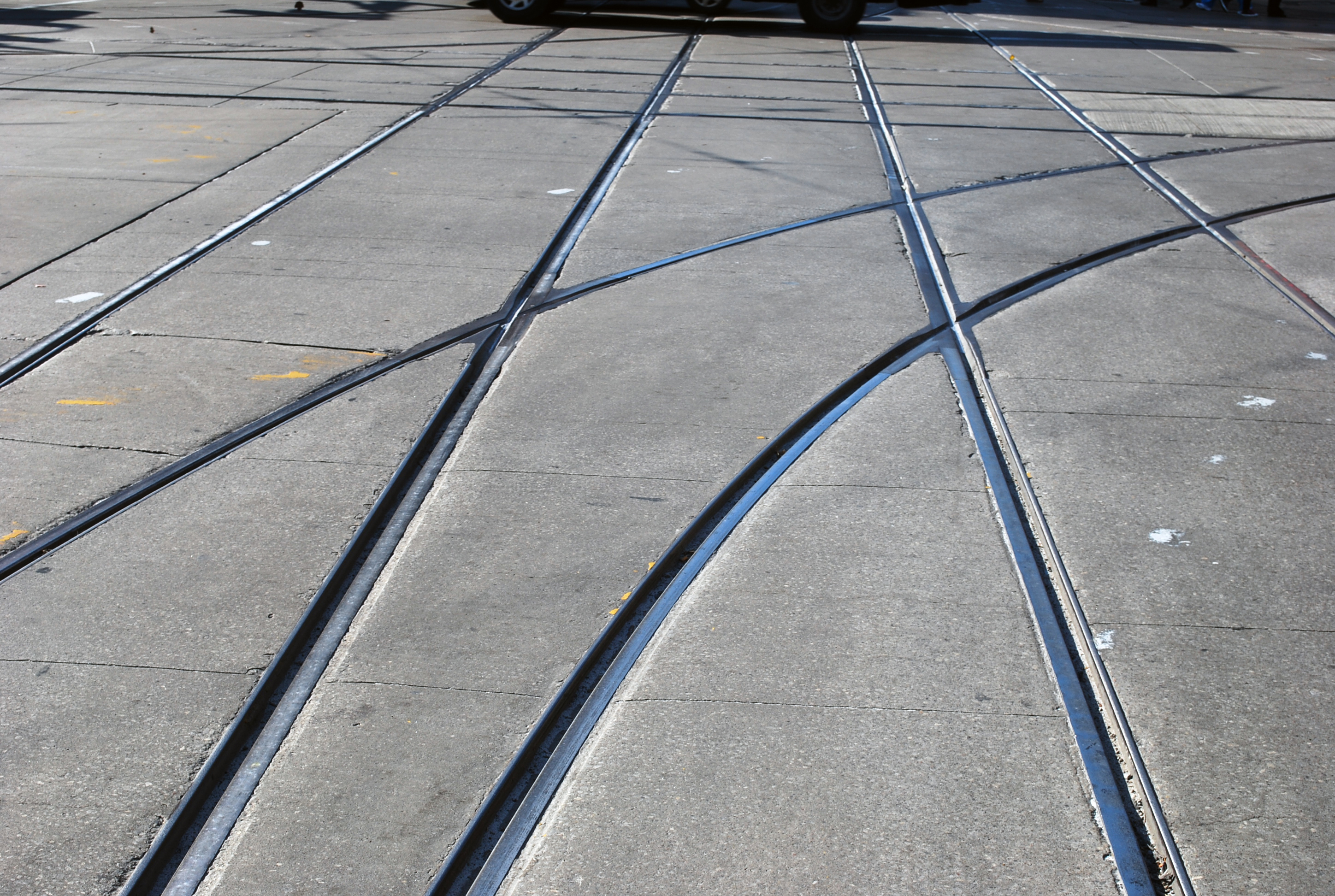 Streetcar rails in Toronto – Tricky for cyclists